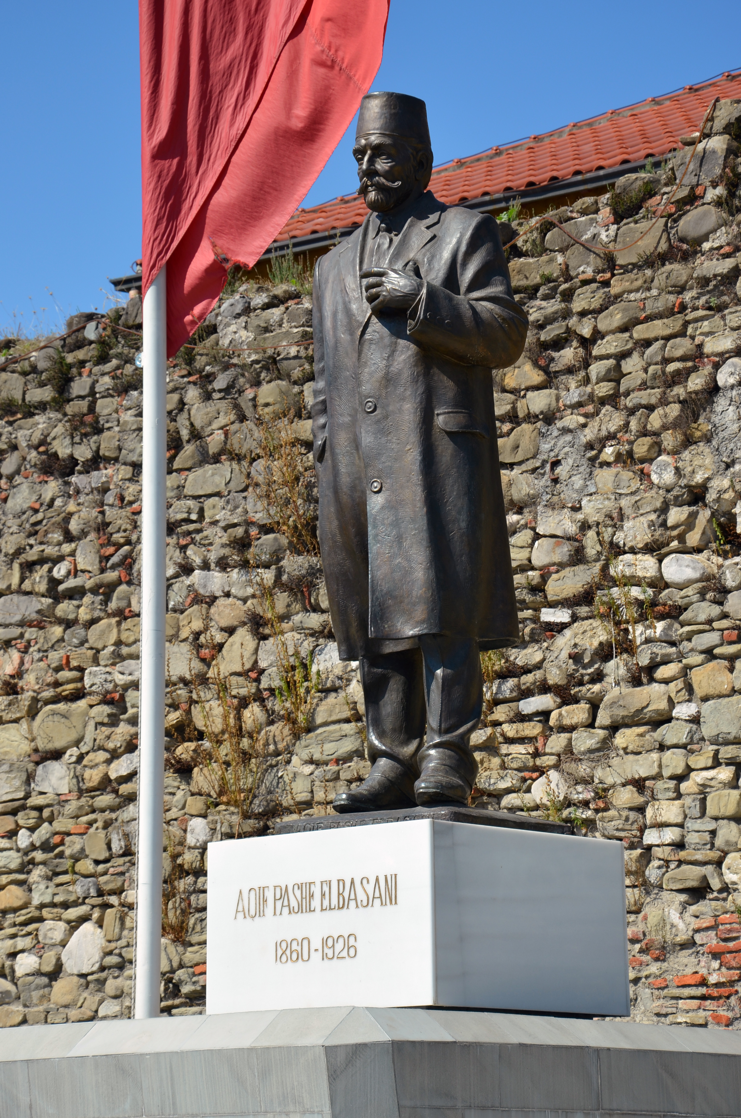 Statue of Aqif Elbasani (aka Aqif Biçaku) in Elbasan